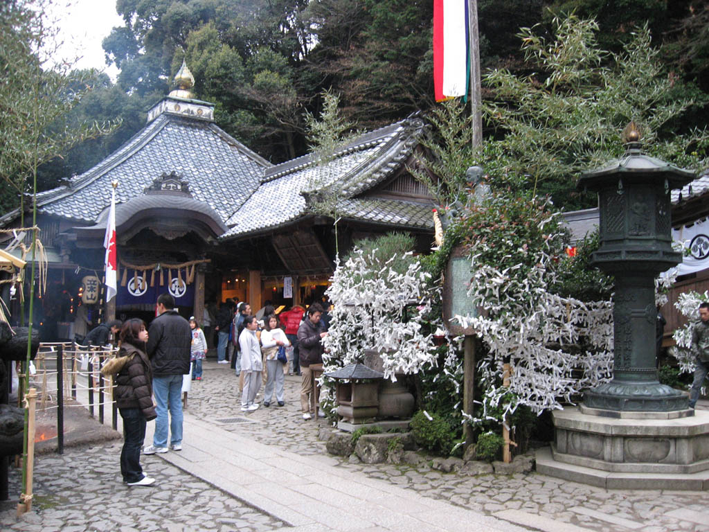 Precinct of Anyoji Temple, Otsu city, Shiga prefecture, Japan. 安養寺（立木観音）境内（大津市）